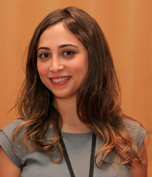 Ayah Bdeir at Open Hardware Summit 2010, Hall of Science, Queens, NY, USA